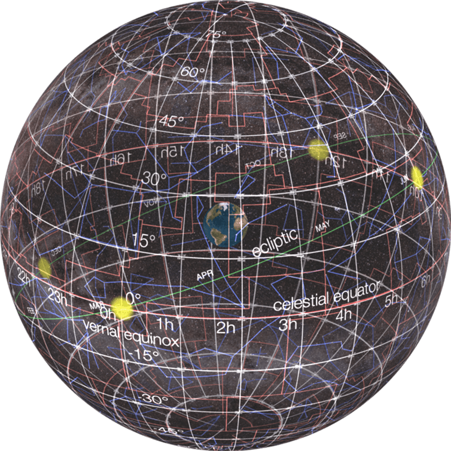 A 3D depiction of the celestial sphere with the sky "wrapped" around Earth at the center. Includes equatorial coordinate system, ecliptic, Sun positions, constellation stick figures, and constellation borders.